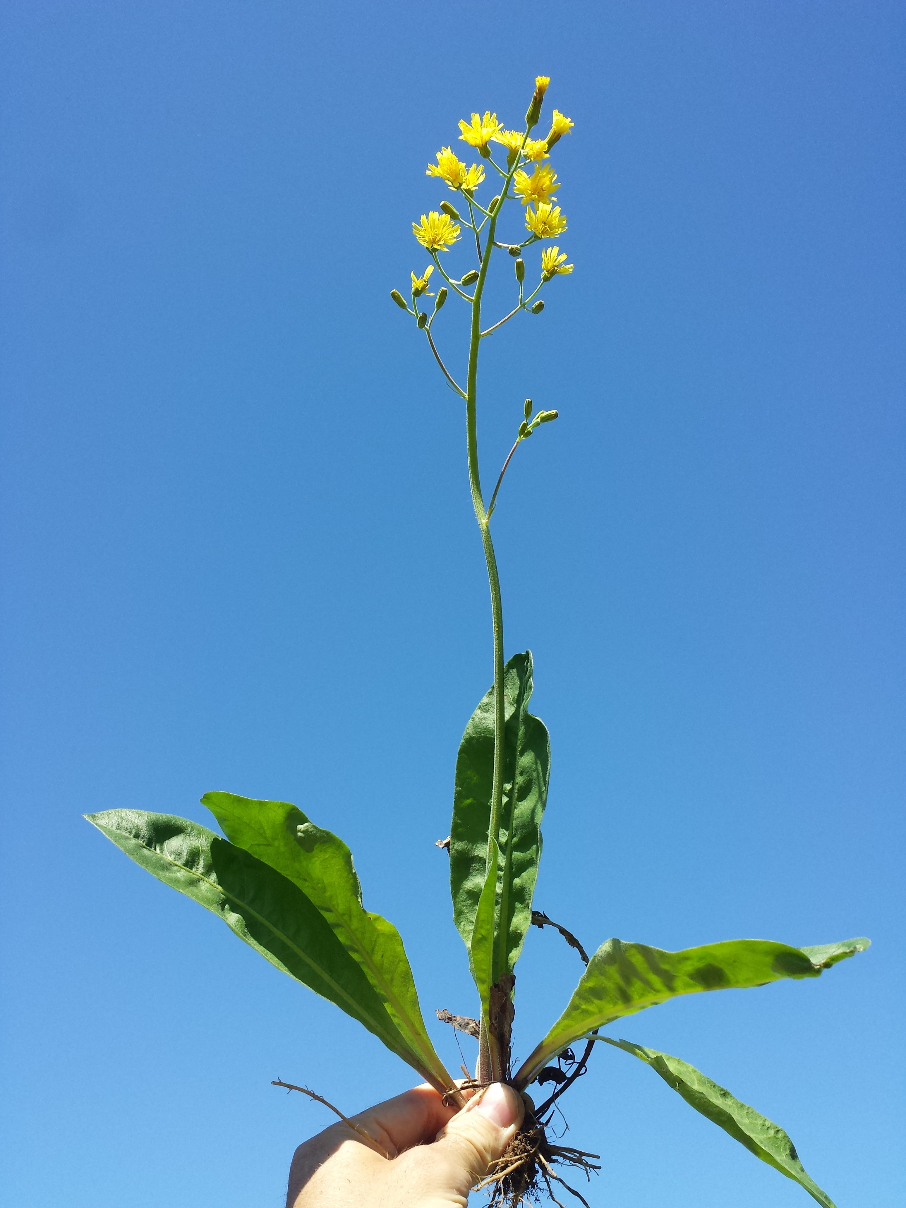 Habitus Taxonym: Crepis praemorsa ss Fischer et al. EfÖLS 2008 ISBN 978-3-85474-187-9 Location: semi-dry grassland to the South of motte next to Eitzersthal, district Hollabrunn, Lower Austria - ca. 240 m a.s.l. Habitat: dry meadows